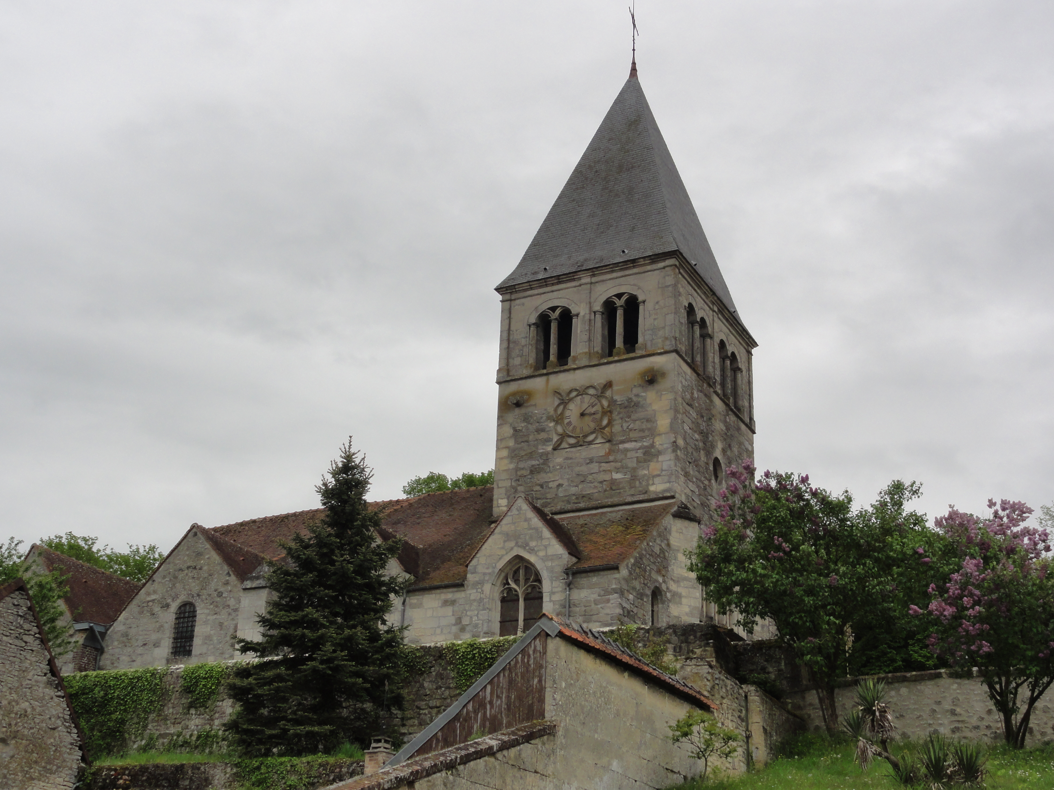 Veslud (Aisne) Église de la Visitation de la Sainte Vierge